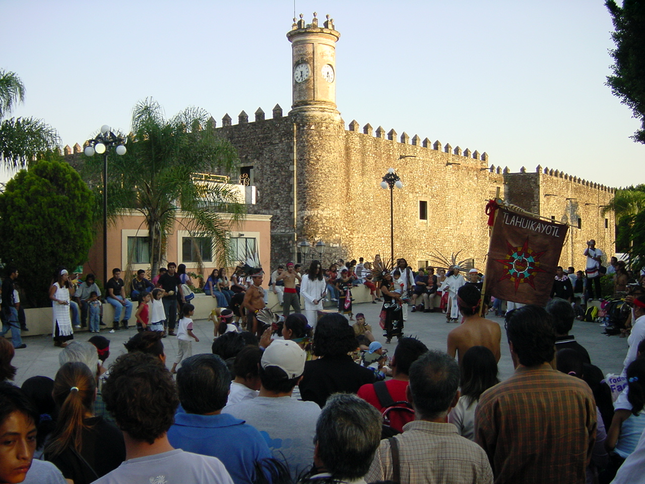 made by myself as tourist with digicam Изображение:Mexico cuernavaca zocalo.JPG